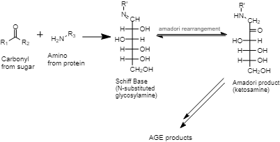 generalized pathway of Malliard reaction